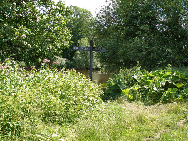 Footpaths meet by the River Tees